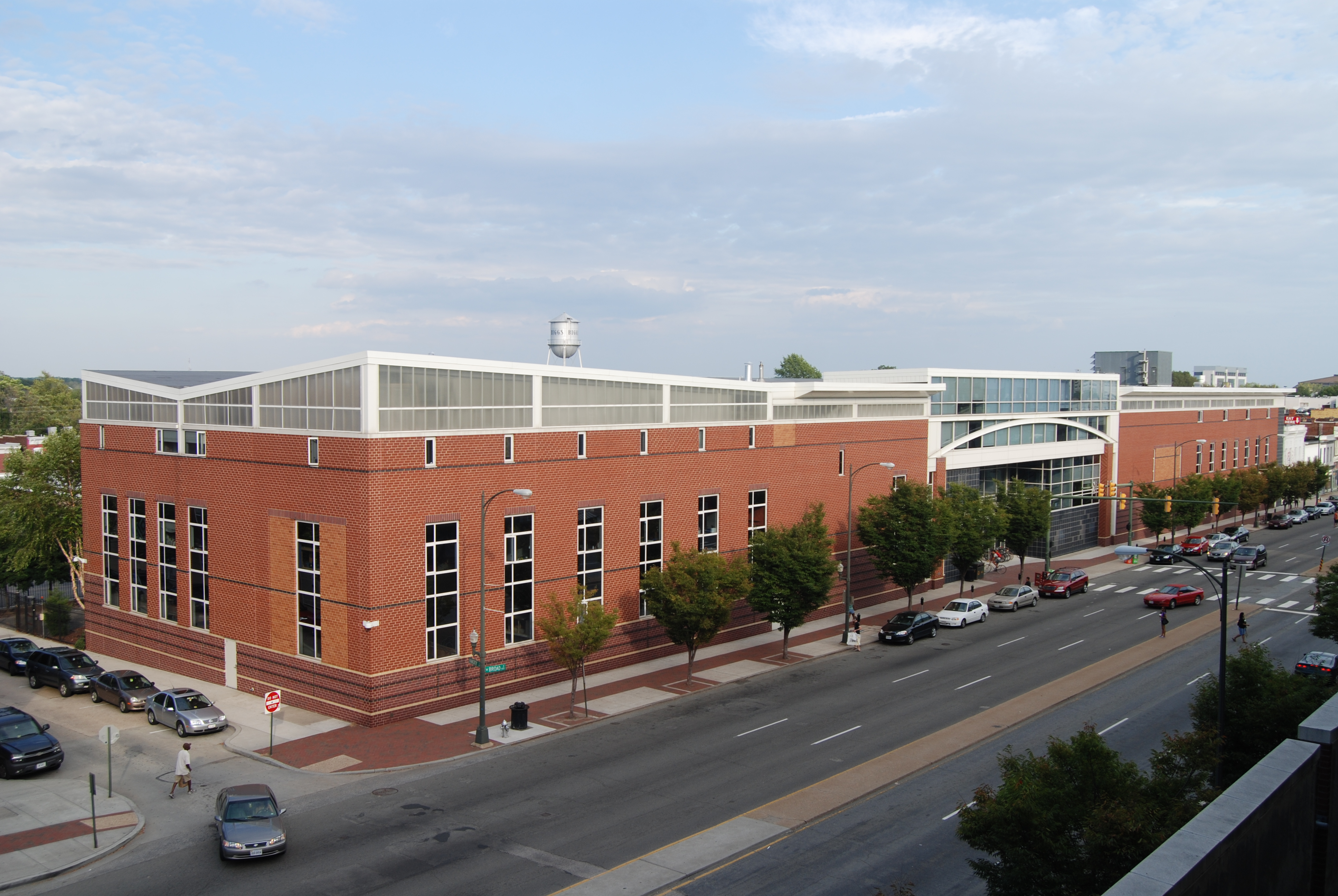 VCU Fine Arts Building by Jeff Auth